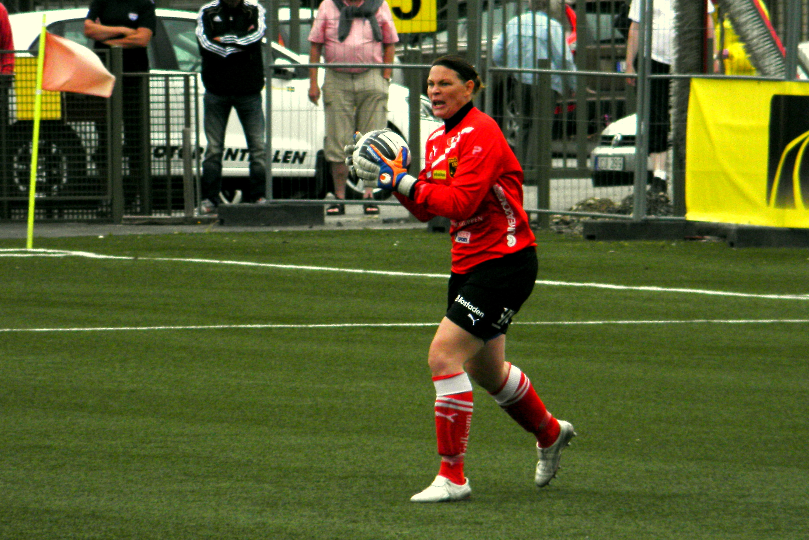 Caroline Jönsson, a swedish goalkeeper from Umeå IK